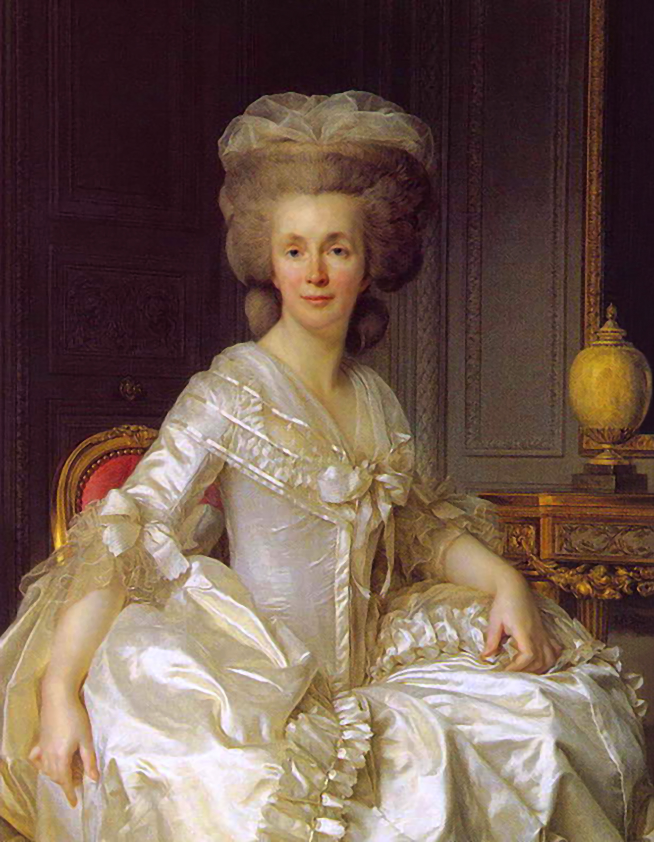 Portrait of Suzanne Curchod (Madame Jacques Necker) (1739-1794) wearing a white satin dress